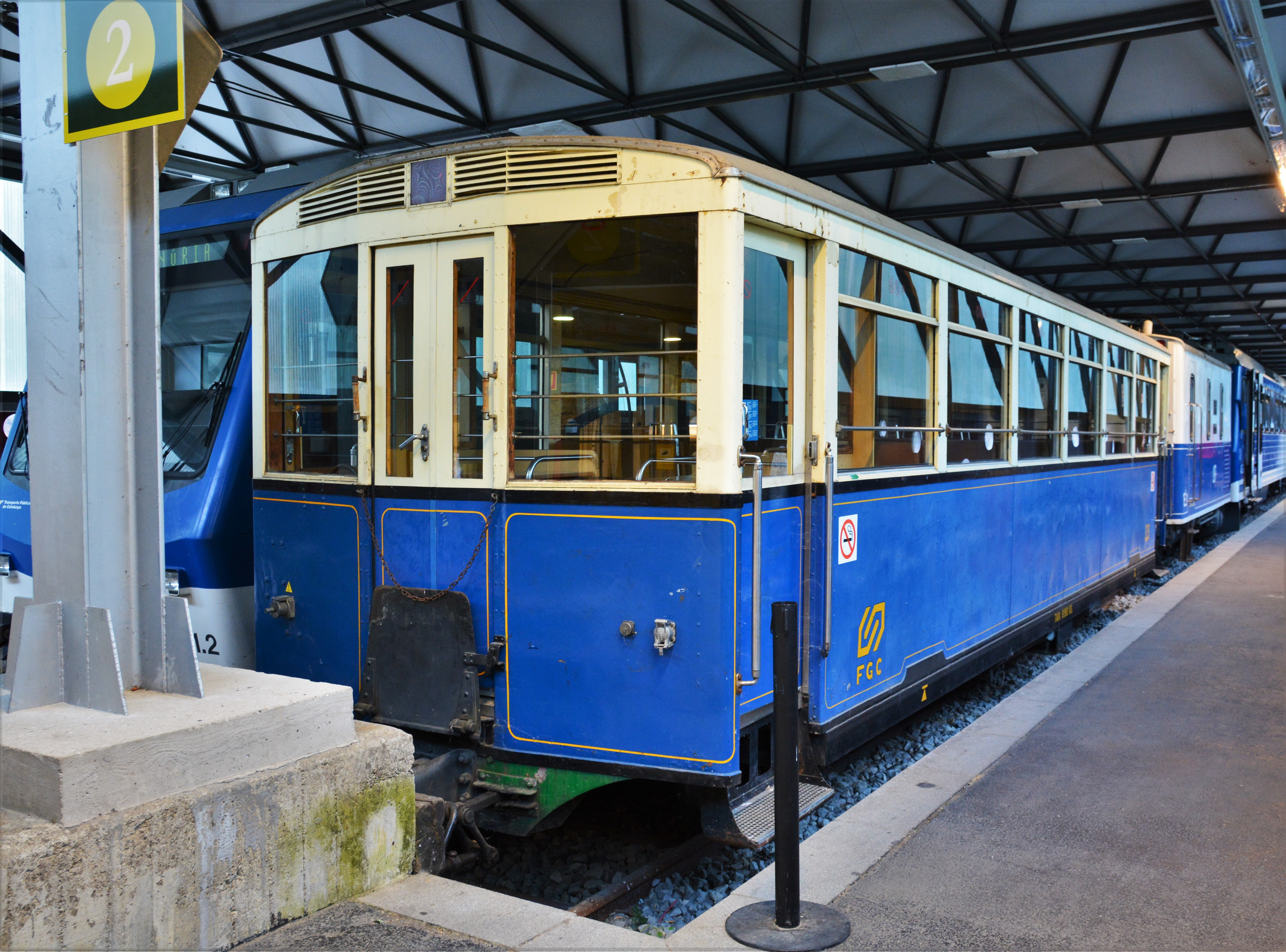 Car 23 of the Nuria rack-railway, of Ferrocarrils de la Generalitat de Catalunya, exhibited at the Ribes Enllaç station.